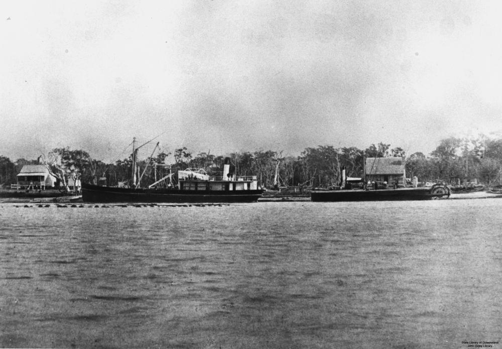 Ships anchored at Pettigrew's wharf, Maroochydore, 1882. The Tarshaw (ship)on the left and the Tadorna Radjah (ship) on the right, anchored at Pettigrew's wharf, Maroochydore. Timber was felled in the Maroochydore area and transported to William Pettigrew's sawmill in Brisbane by water and by bullock teams.